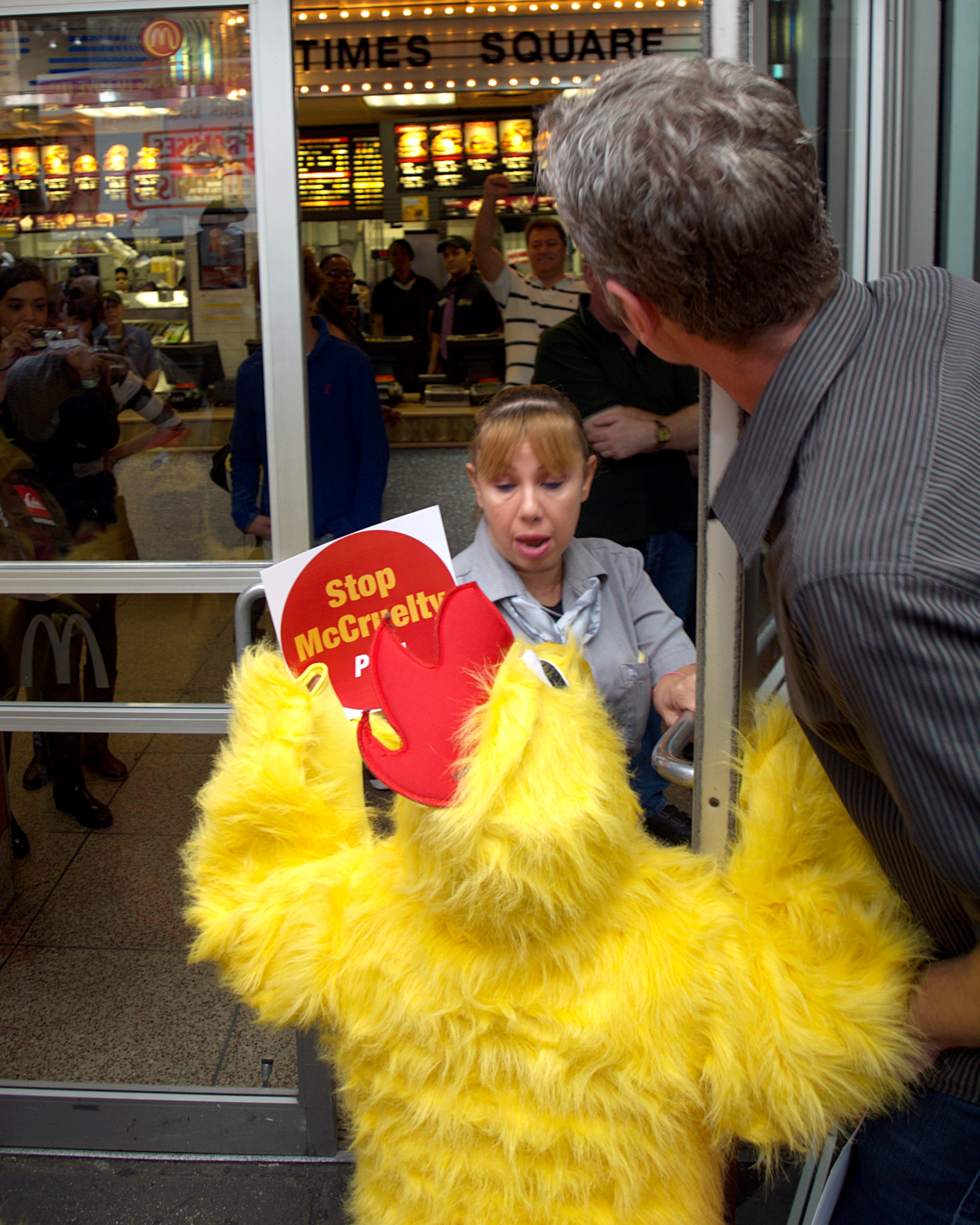 A troupe of little people in chicken suits flocked to McDonald's in Times Square brandishing signs declaring, "I Am Not a Nugget!"; The diminutive dancers from " Centerfold Strips—which bills itself as the number one source for midget and dwarf strippers—made their entrance in a pink stretch Ford Excursion SUV limousine and pounded the pavement in a choreographed musical protest against McDonald's slaughter practices.